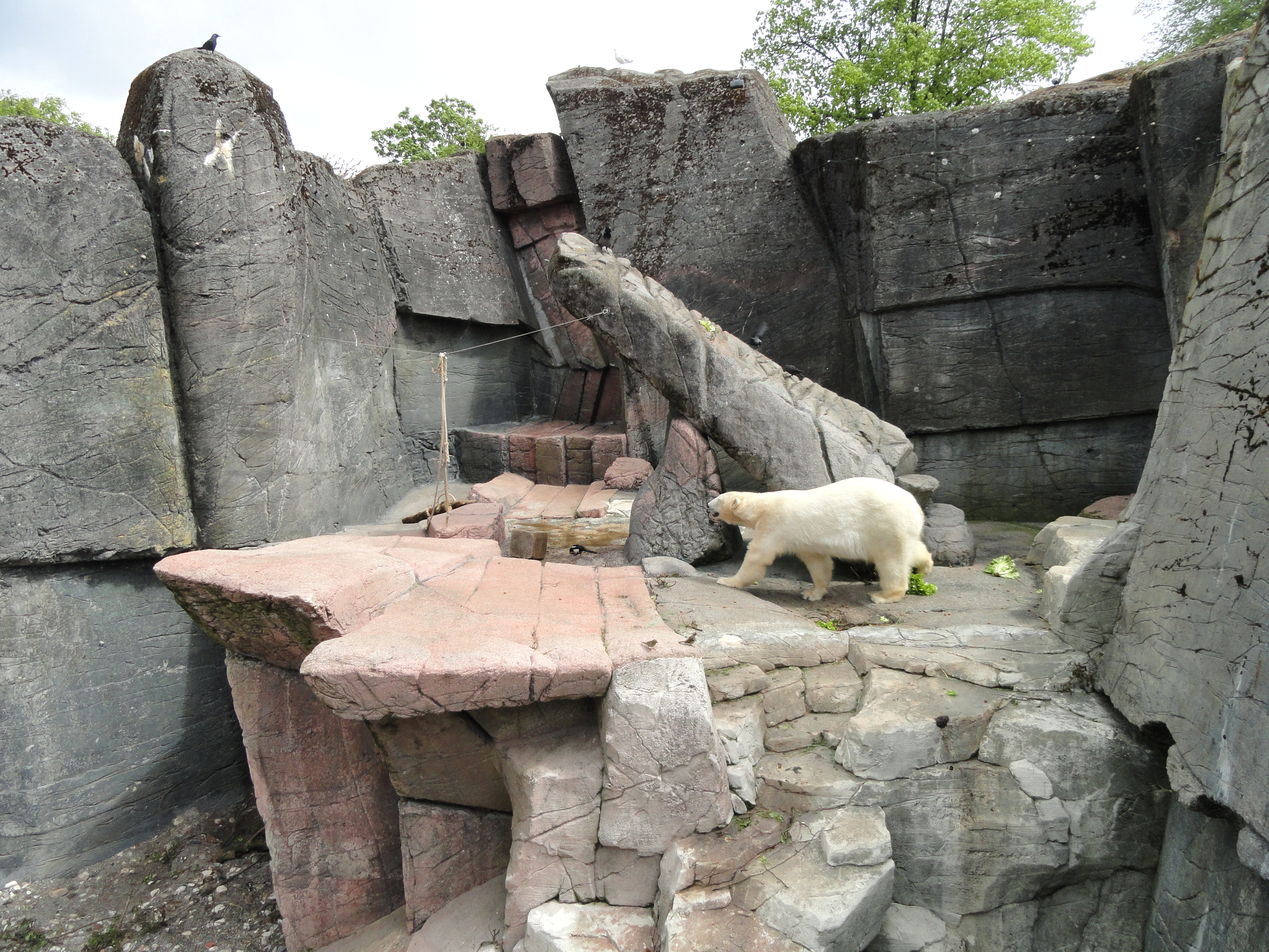 Copenhagen Zoo, Frederiksberg, Copenhagen, Denmark. Polar bear in old exhibit (moved to the "Artic Ring" exhibit in 2013)